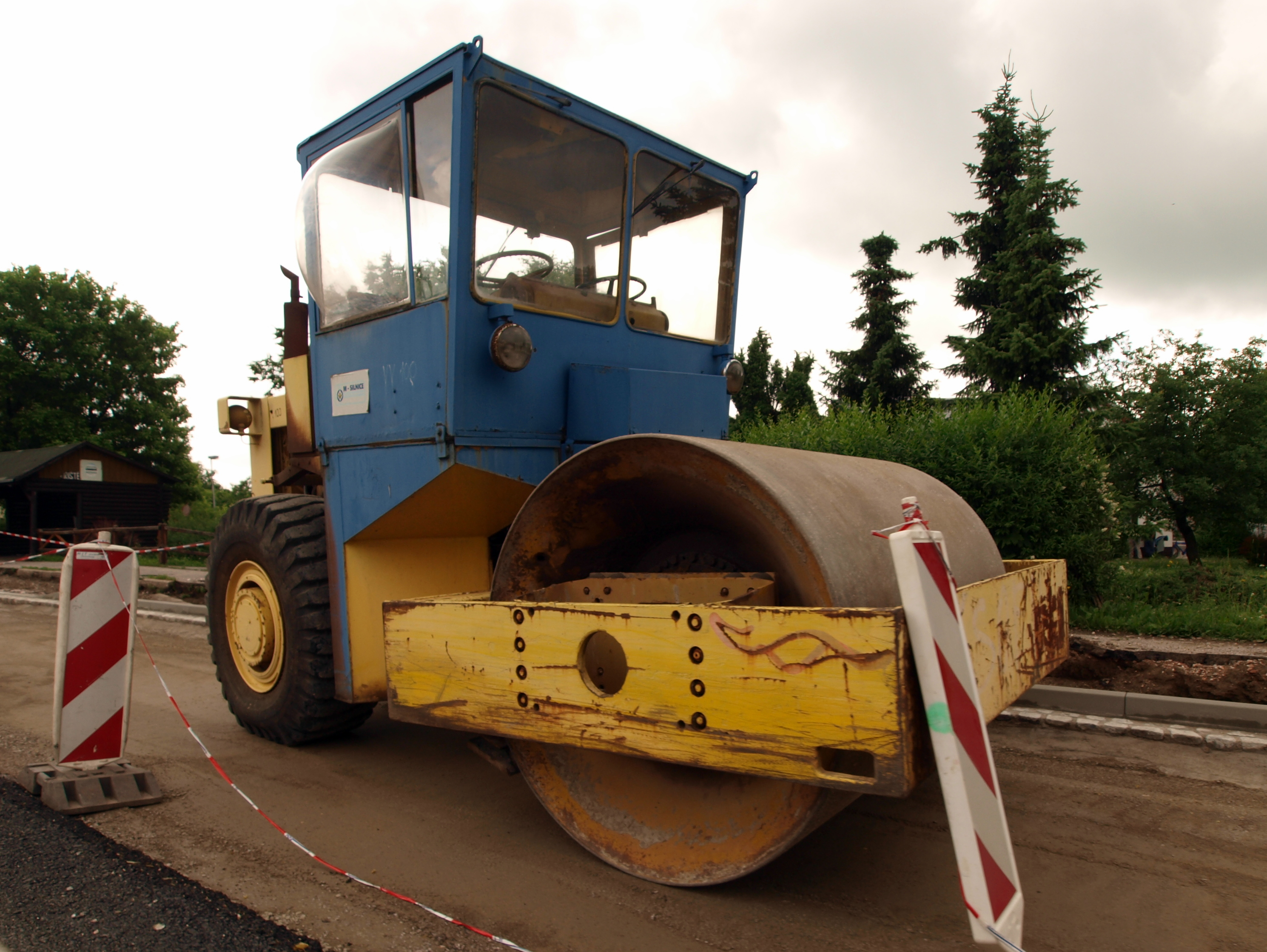 Photographed in the Czech republic. Stavostroj VV 100